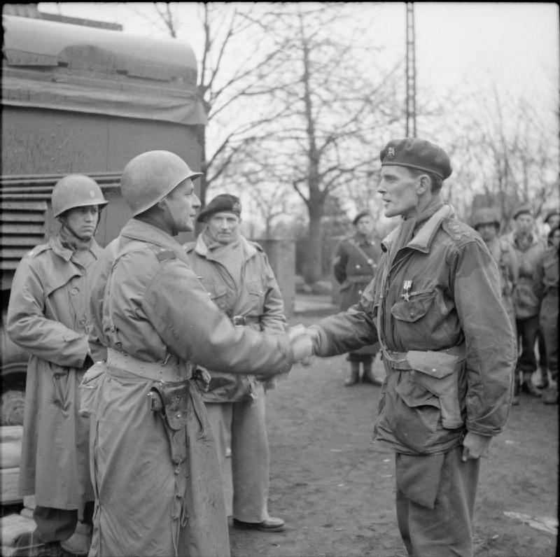 The British Army in North-west Europe 1944-45 Major General Matthew B Ridgway, commanding 28 Airborne Corps, decorates Brigadier James Hill, 3rd Parachute Brigade, British 6th Airborne Division, after the Rhine crossing, 29 - 31 March 1945.